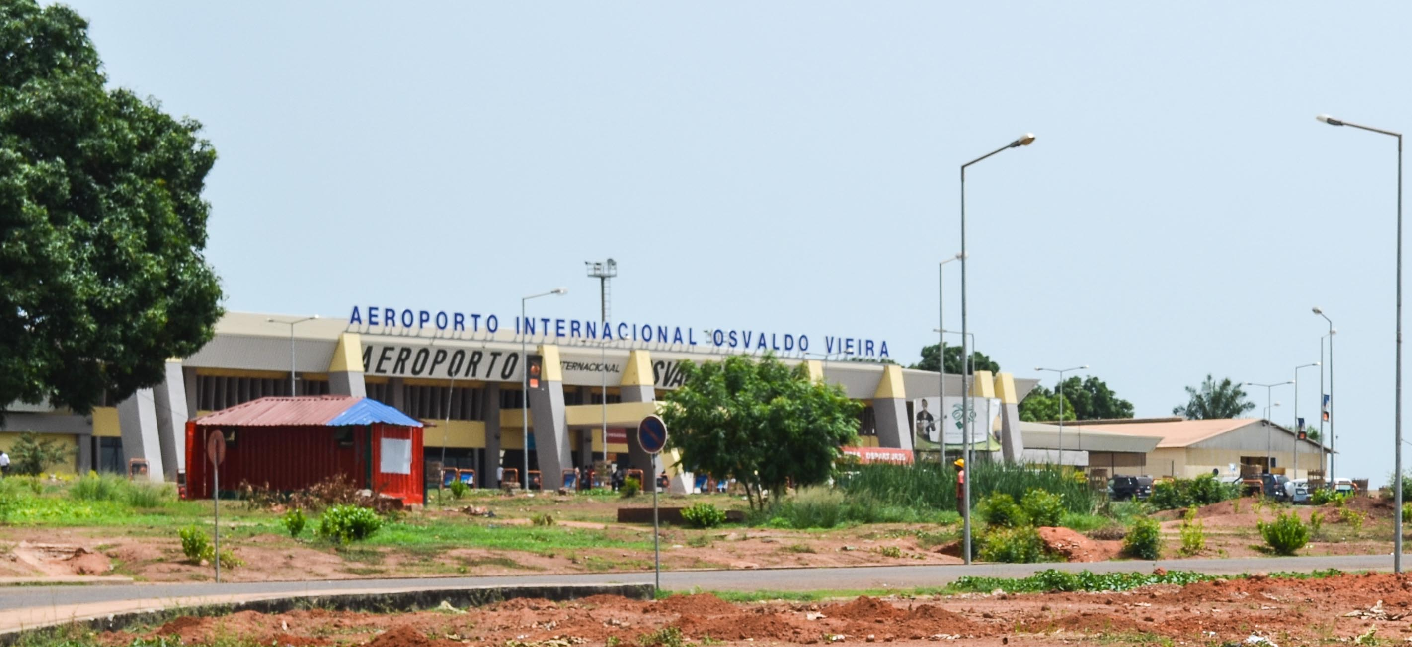 Airport roundabout, at Bissau airport. Bissau, Guinea-Bissau.